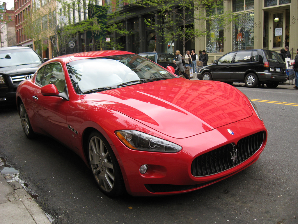 A gorgeous little Maser sitting on the street. Quite a color.